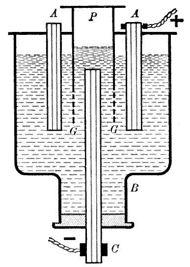 SDiagram of Castner process apparatus for the production of sodium metal.